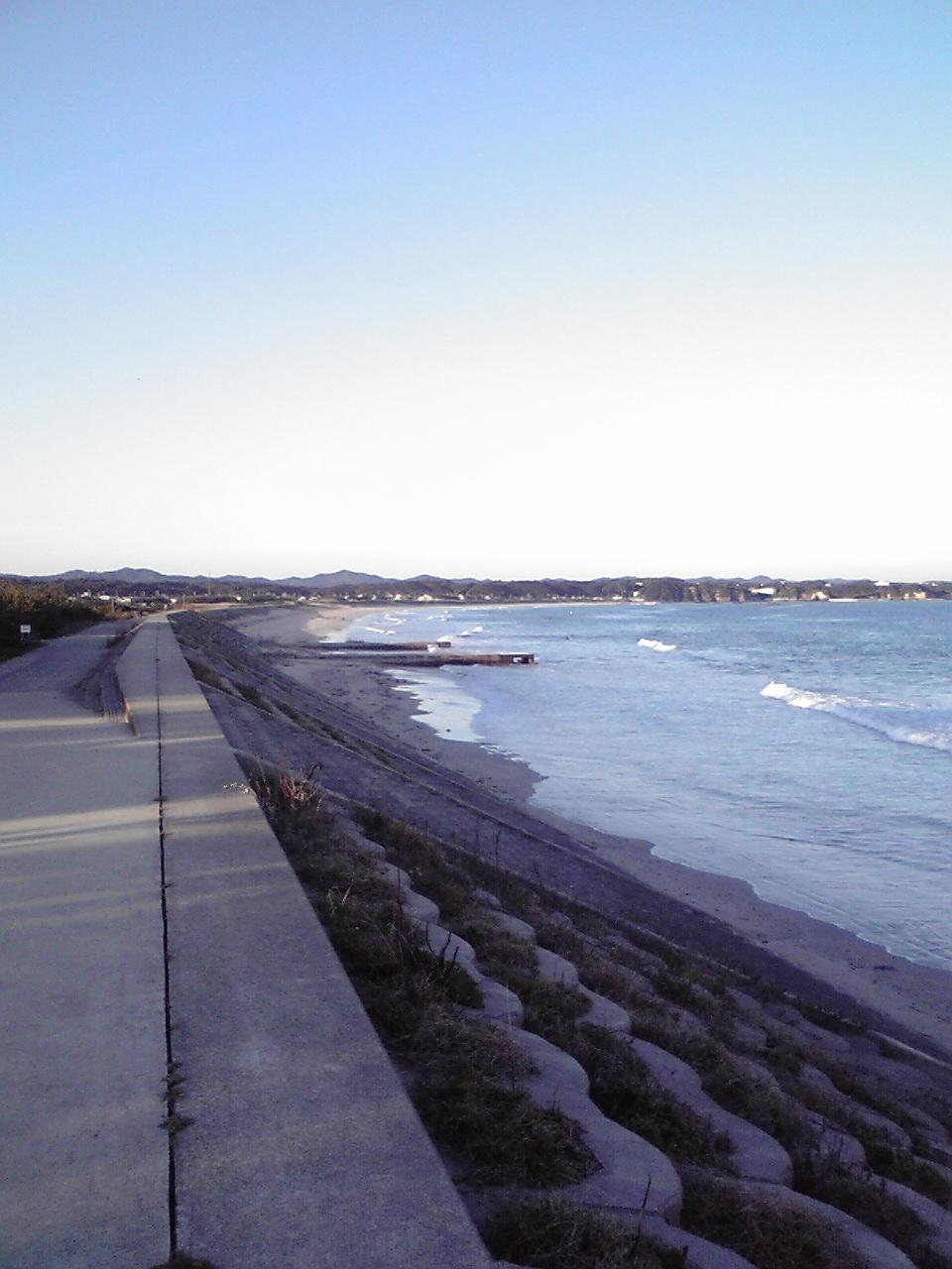 This is a beach in Shima,Mie,Japan.This beach is named "Ago's Pine Woods beach".It is famous swimming spot in Iseshima area in Japan.